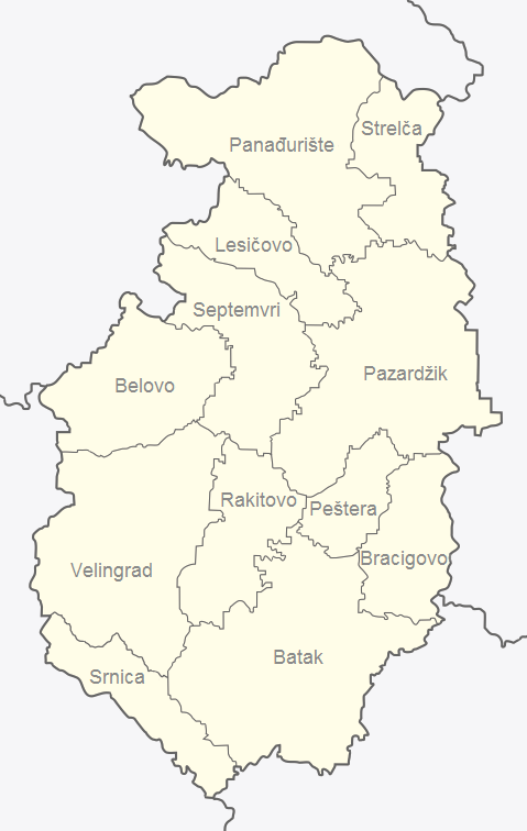 Croatian names on map of Pazardzhik District (Bulgaria)